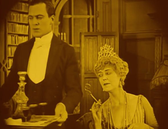 Thomas Meighan and Mayme Kelso in Male and Female (1919) - cropped screenshot